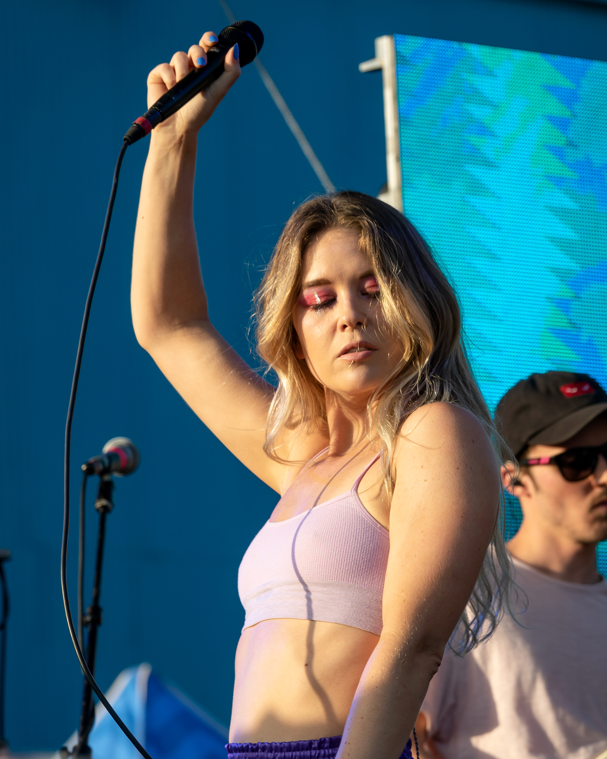 Transviolet performing live at the "Made In L.A." Festival at Golden Road Brewing in Los Angeles, California, on Saturday, September 1, 2018.